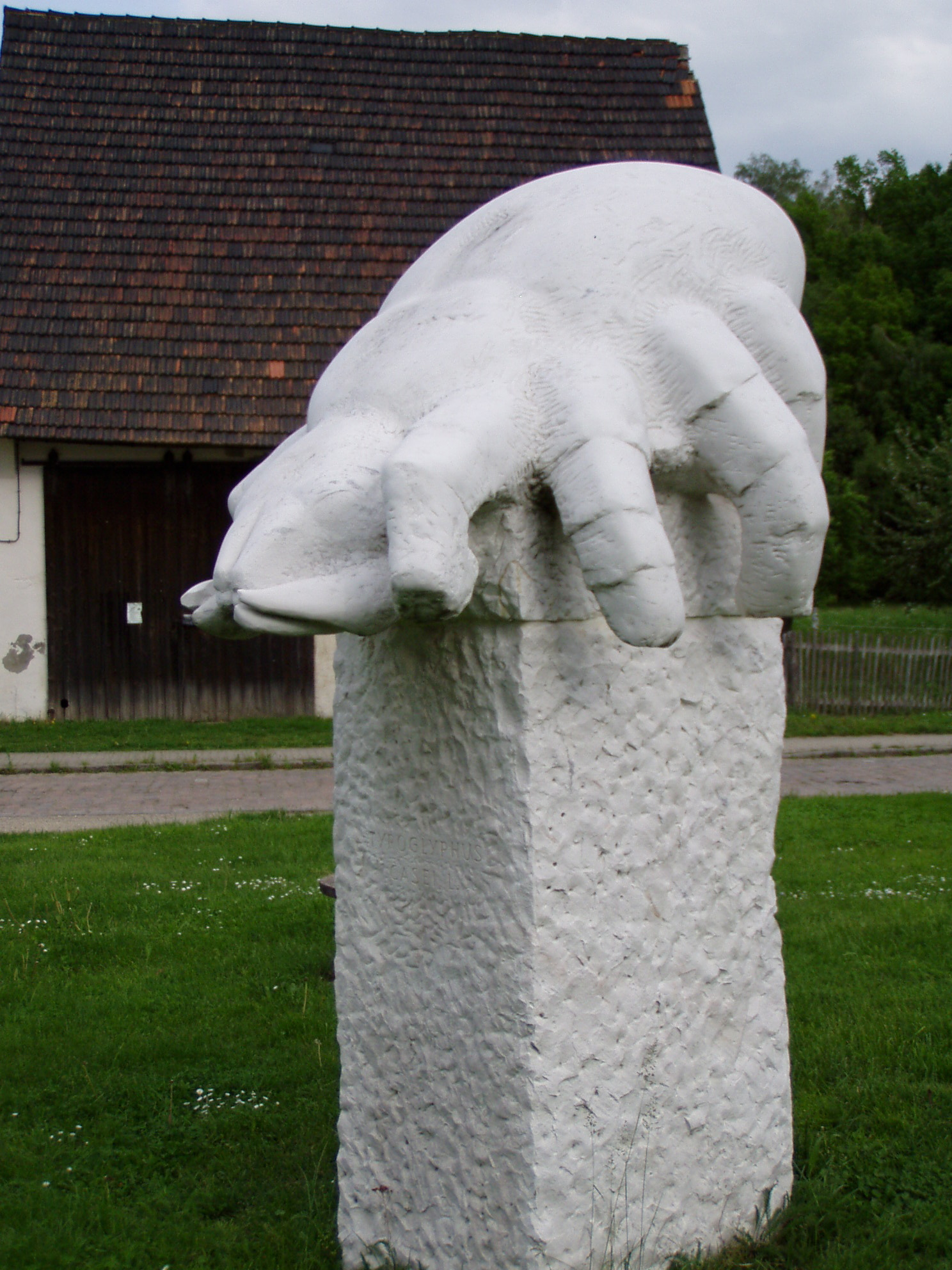 Würchwitz, Saxony-Anhalt, Germany: Cheese Mite (Tyrophagus putrescentiae) Monument